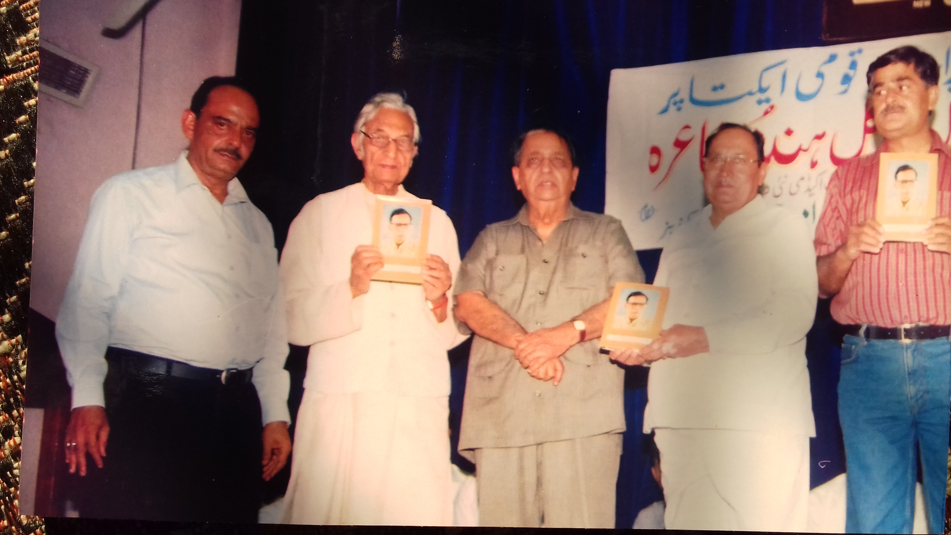 Book Release of Izhar Warsi in Ghalib Academy Delhi. Professor Qamar Rais and Dr.Suhail Ahmad Siddiqui .